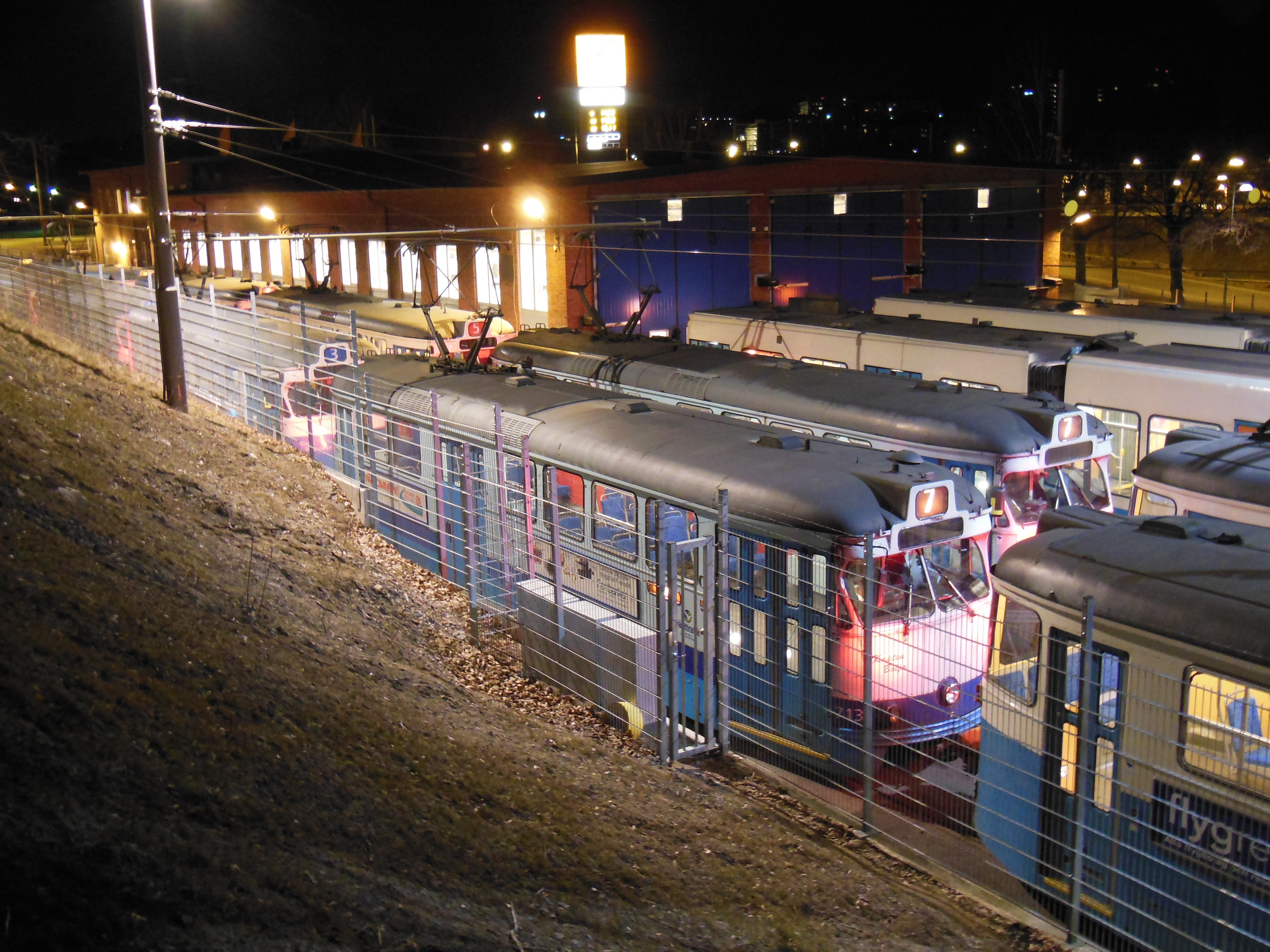 "Vagnhallen Slottsskogen" in Göteborg, Sweden.